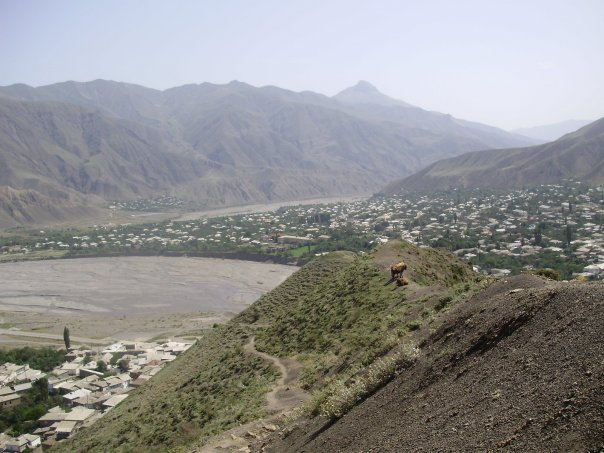 View of Samur ridge with the top of Gestinkil in Dagestan, by the town of Akhty.